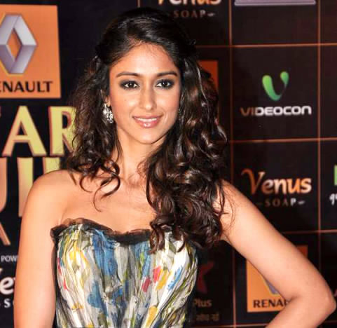 Ileana Dcruz at Renault Star Guild Awards 2013